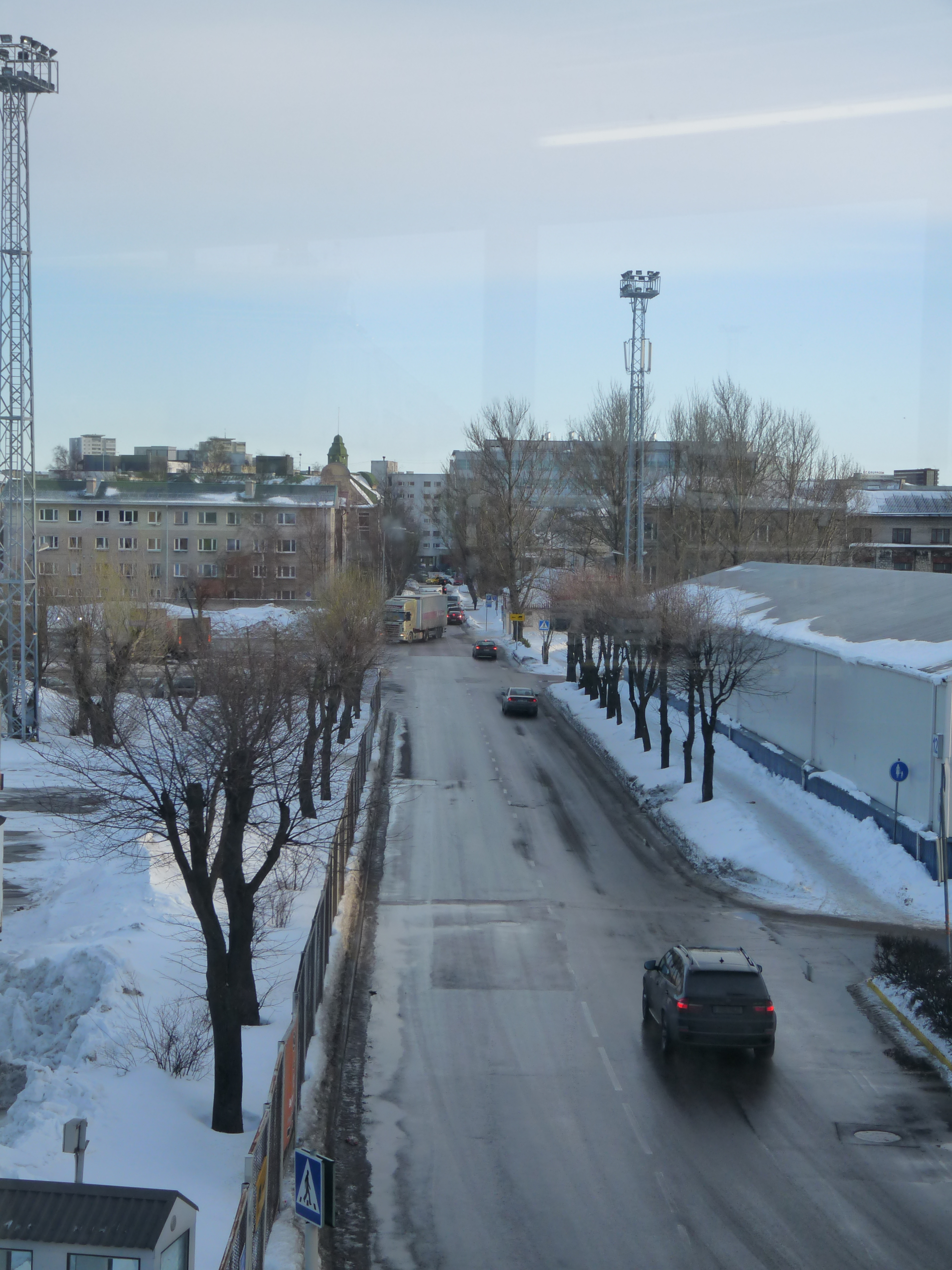 Uus-Sadama street